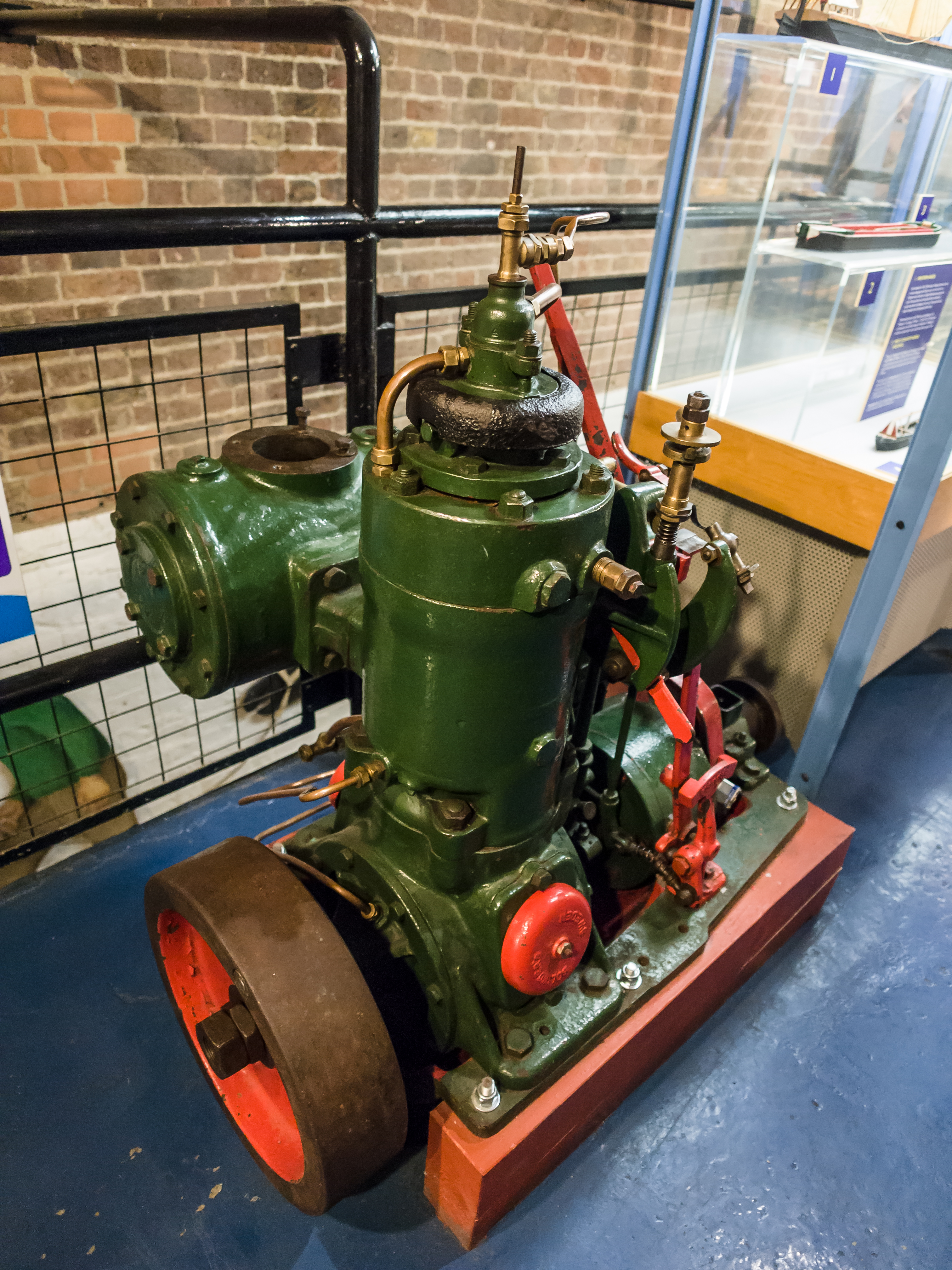 London Canal Museum. These early engines were not true diesels, as they did not ignite on compression alone, but needed a glow-lamp. Many of them were used in canal boats in the early 20th century.